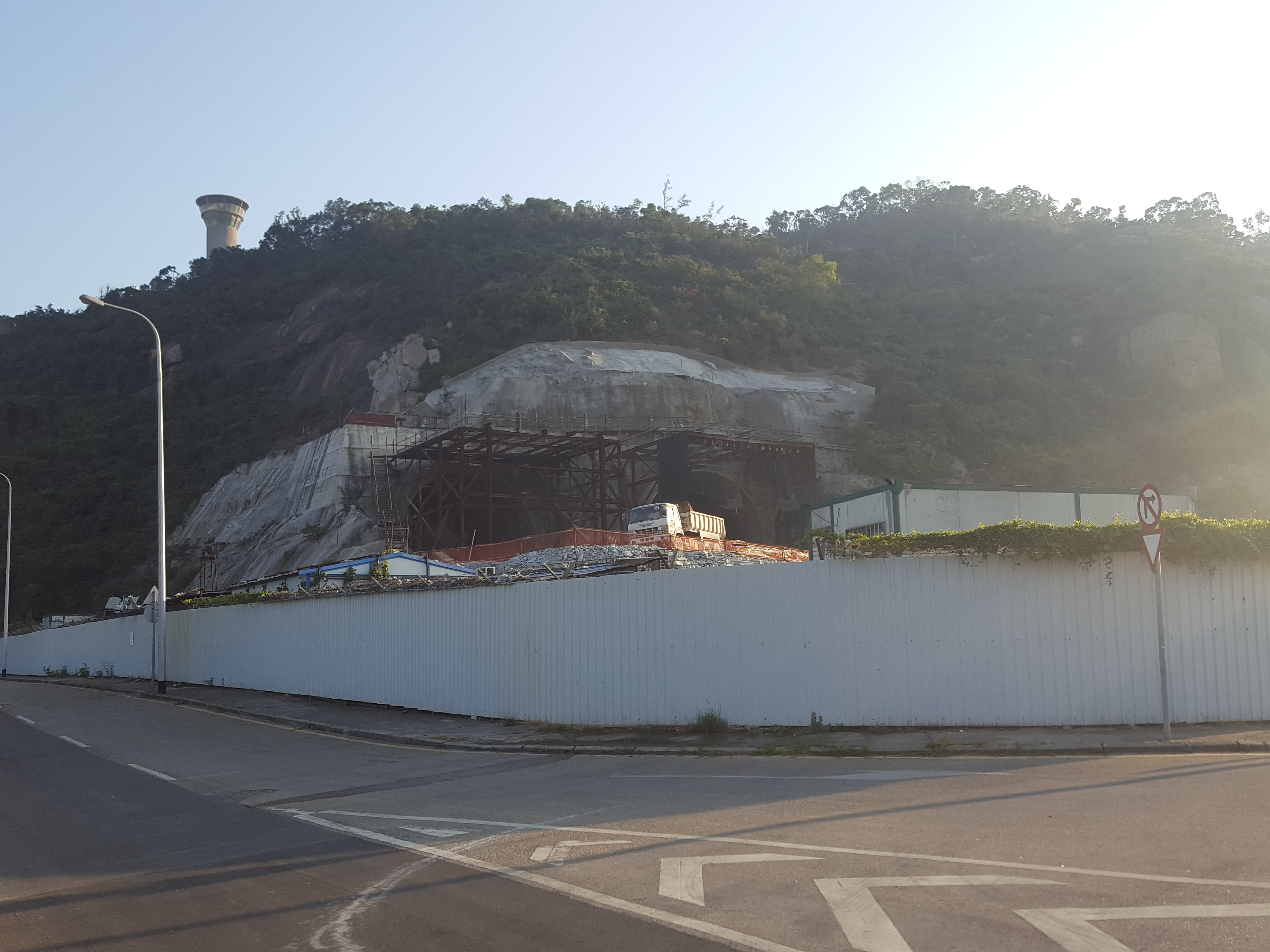 North Entrance of Ká Hó Tunnel